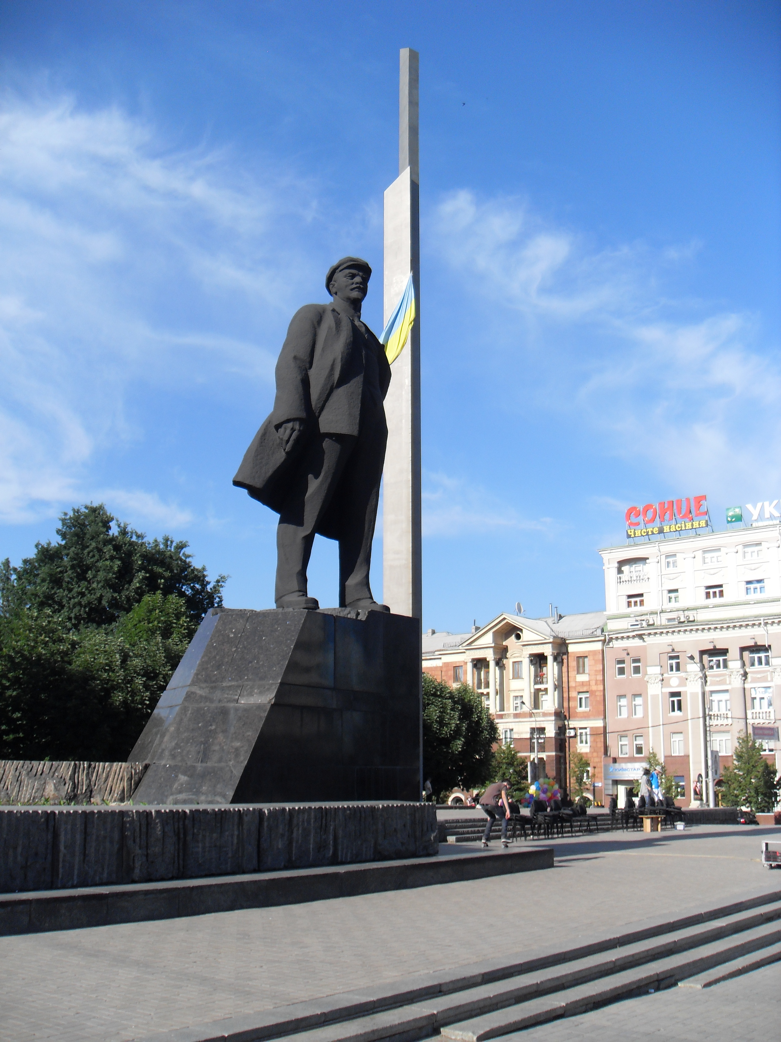 Huge iron Lenin statue in the center of the Lenin square (площадь Ленина) of Donetsk. The long square is located between the Artema str. (вул. Артема) and the Postysheva str. (вул. Постишева), in the center of the city.